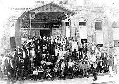 Cuban patriot Jose Marti poses with cigar factory workers after giving a speech in Ybor City, Tampa, Florida in 1893